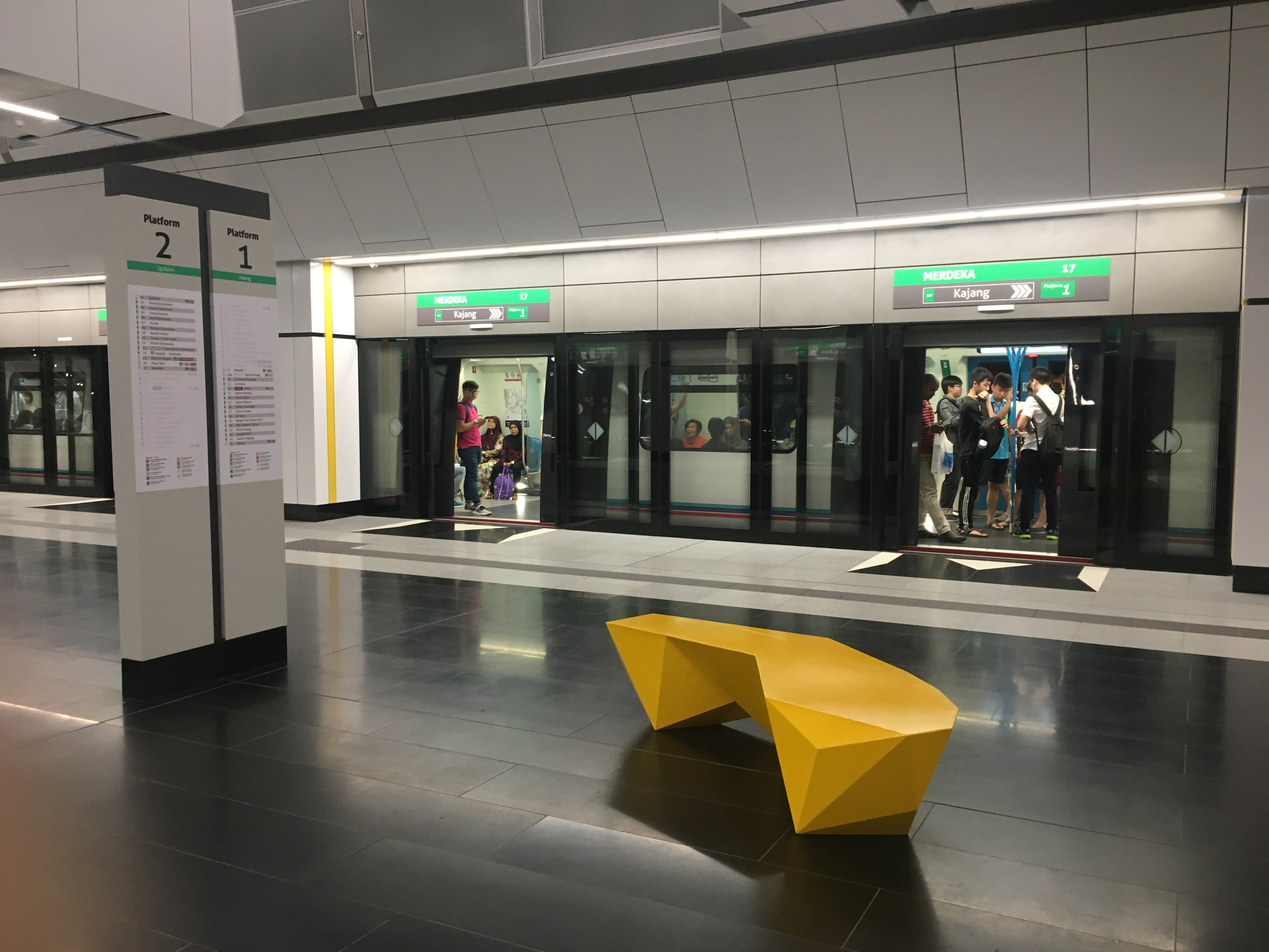 Bench at the Platform Level of the Merdeka MRT Station.